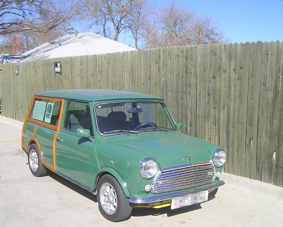 Skip & Elaine Laughlin's 1972 Mini Countryman. The wheels and mirrors are later additions. Also the turn indicators originally had amber glass rather than clear glass and amber bulbs.